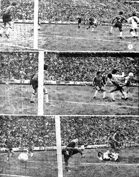 During a 1975 Copa America match between Peru and Chile, Peruvian winger Juan Carlos Oblitas scores from a chalaca (bicycle kick).